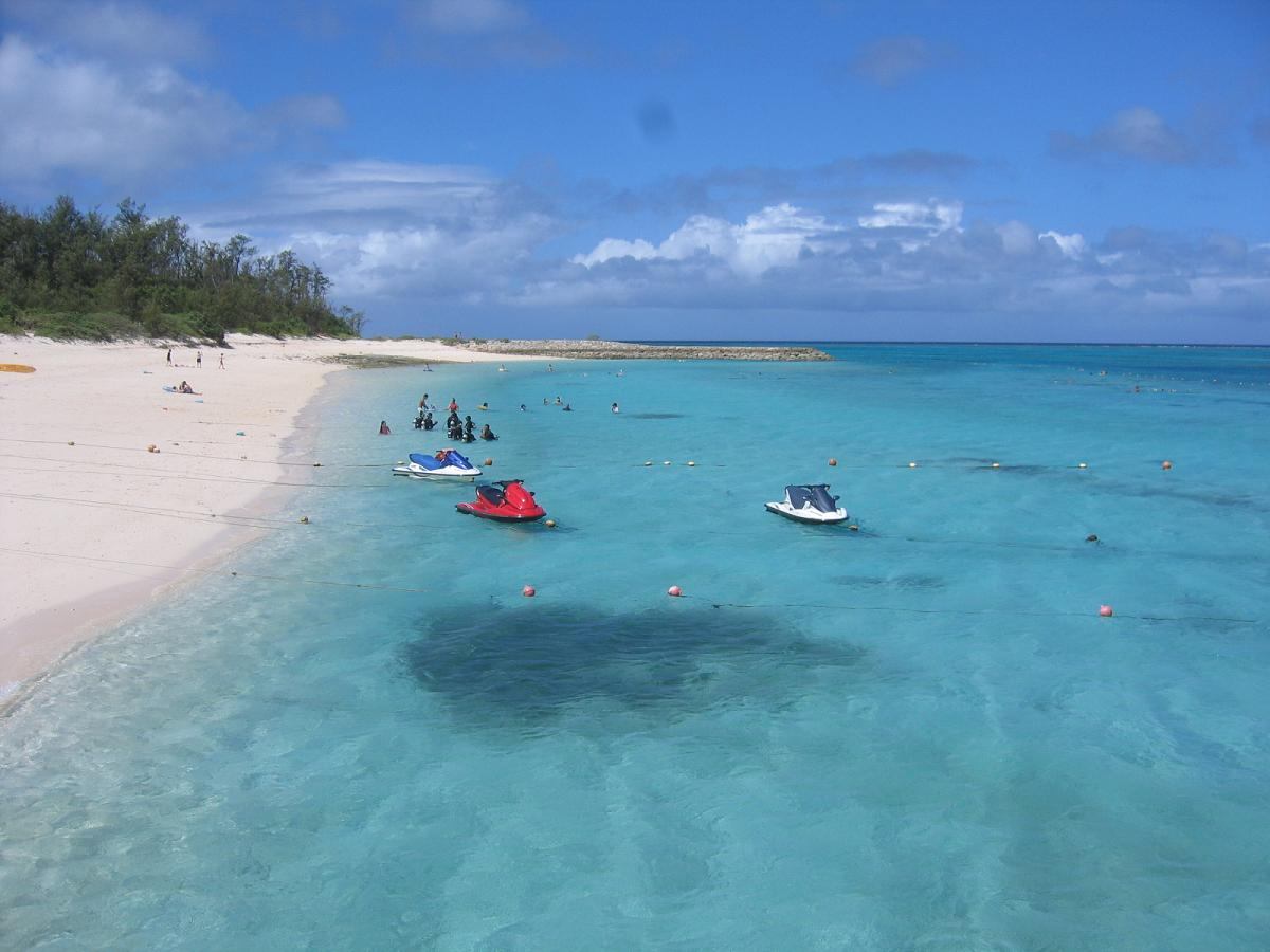 A beach in Minnnajima, Motobu, Okinawa Prefecture, Japan